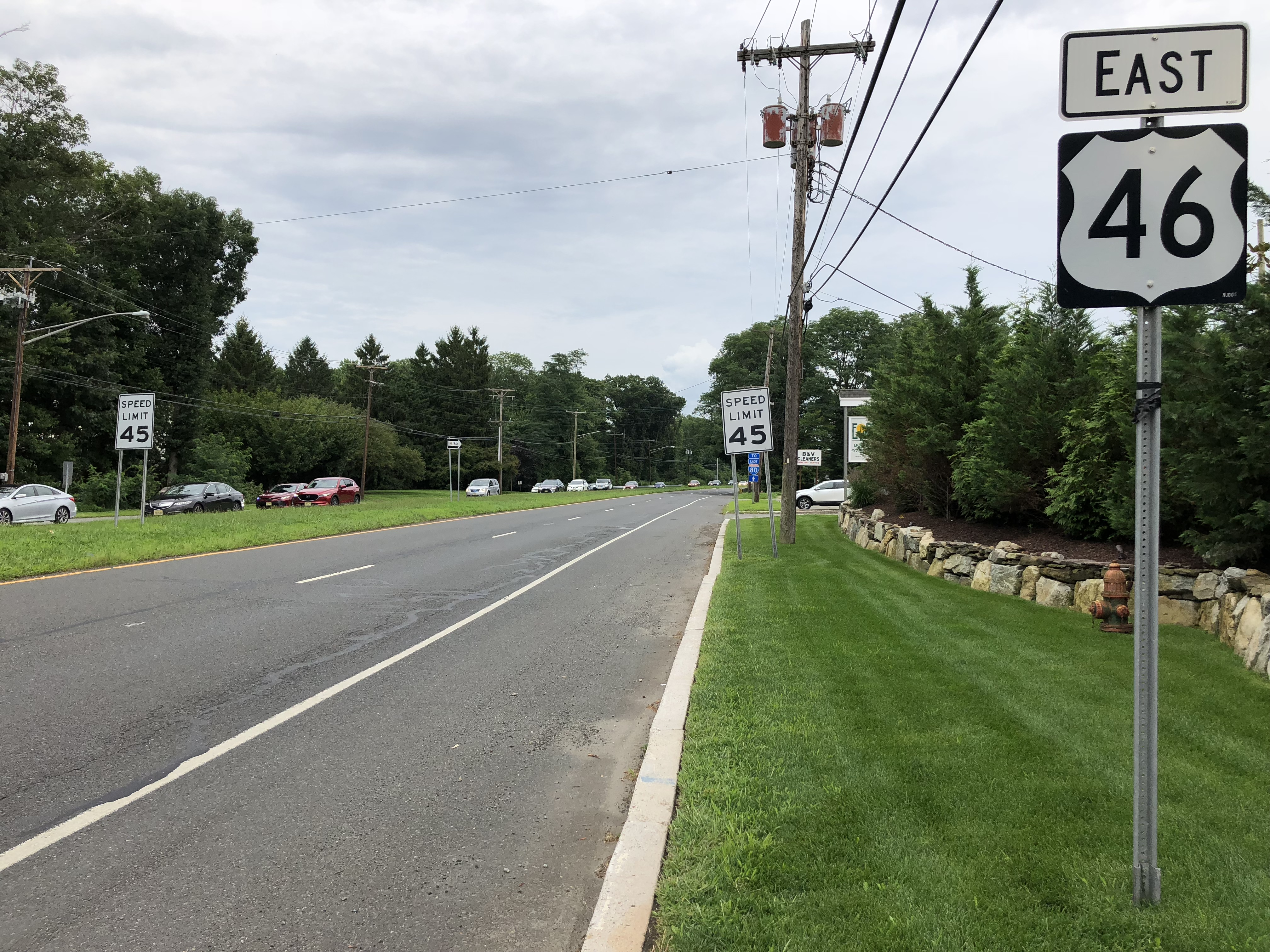 View east along U.S. Route 46 just east of Morris County Route 618 (Mountain Lakes Boulevard) in Mountain Lakes, Morris County, New Jersey